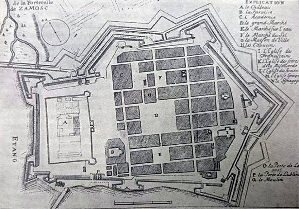 Zamość city plan XVII century